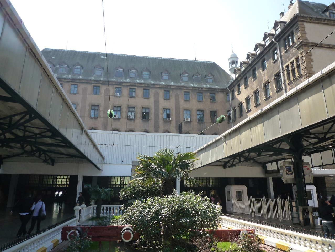 The building of Istanbul Haydarpaşa Terminal